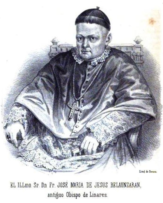 Mons. Belaunzaran published by "La Cruz" Catholic Newspaper from 1857. This Bishop consecrated Monterrey Cathedral in 1833.